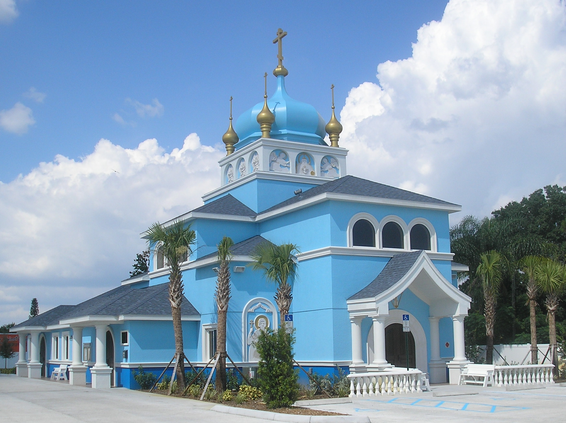 Photograph of the new church (replacement for an older, smaller church building) of the great martyr Saint Andrew the Commander (aka, Andrew Stratelates) on the day of its consecration, the feast day of its namesake, 1 September 2010.